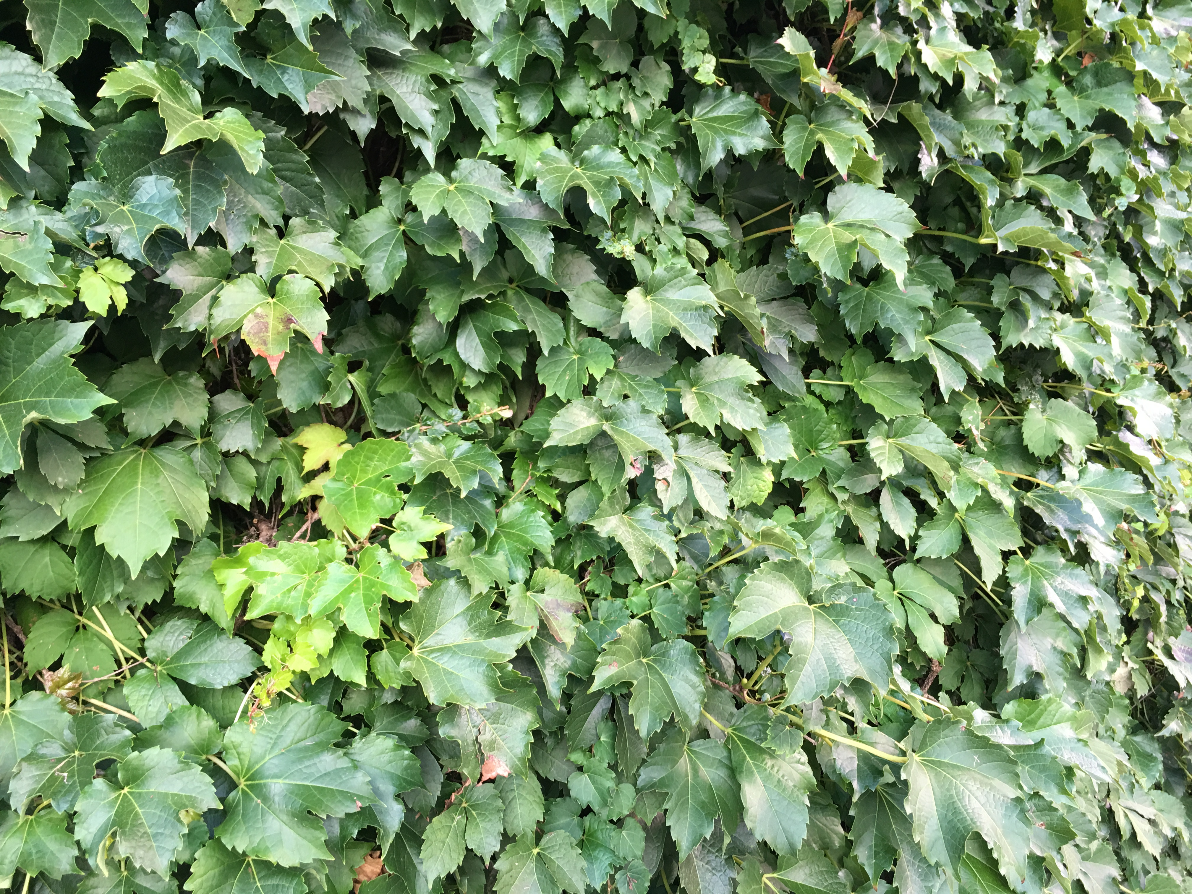 Billy Joel at Wrigley